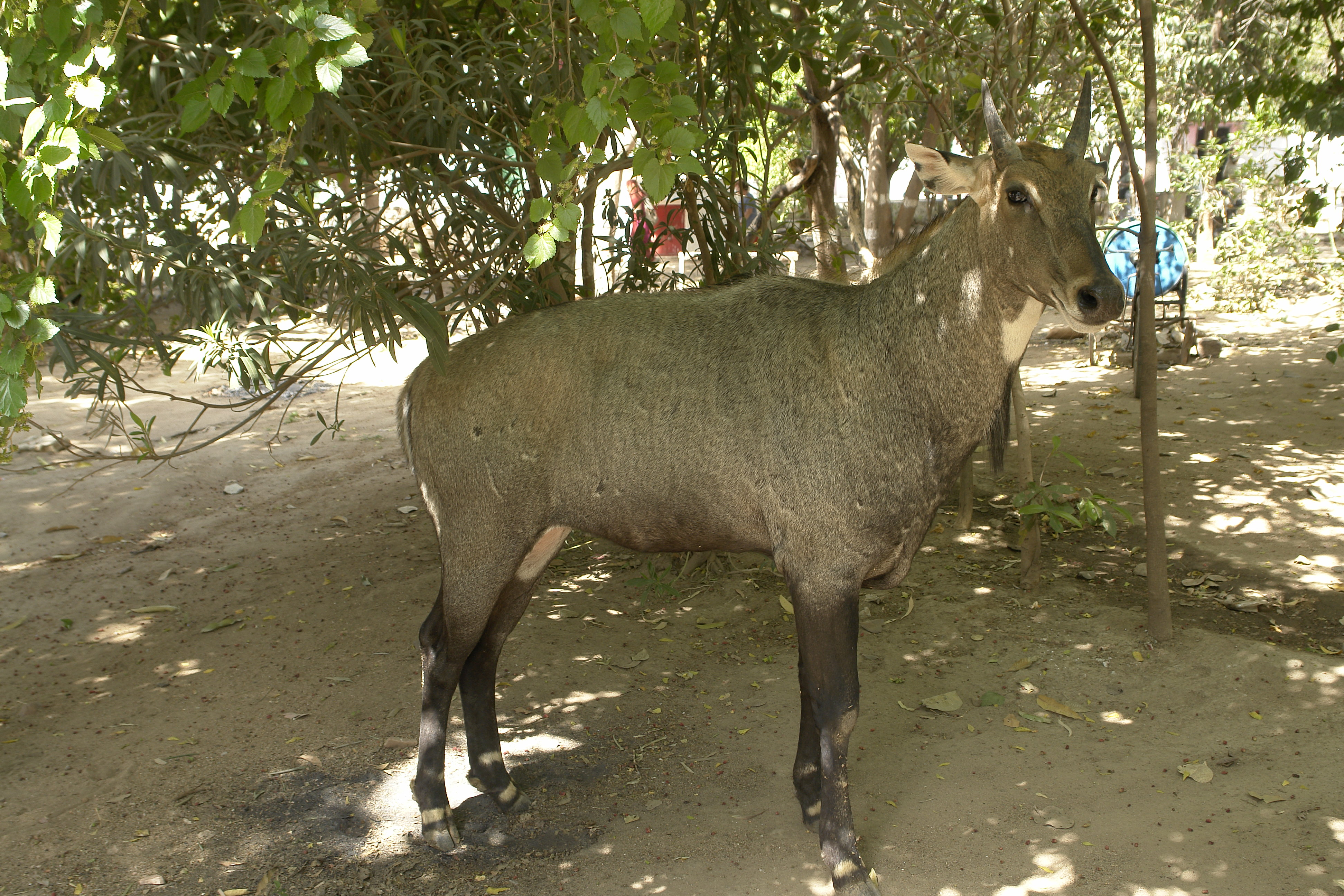 Tamed nilgai (Boselaphus tragocamelus), male, Lakeshwari, Gwalior district, India.